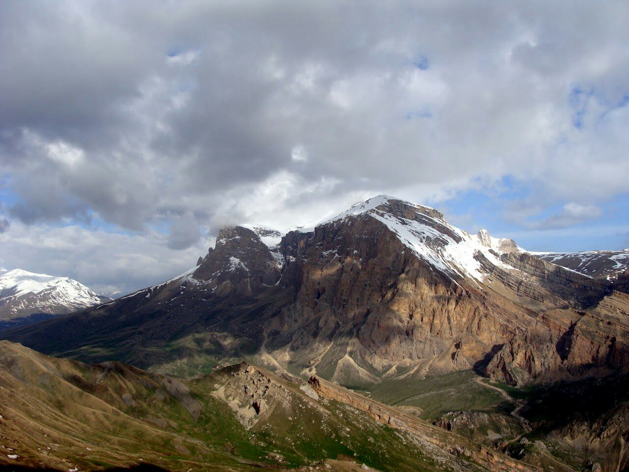 Shakhdag. View from Geydar peak